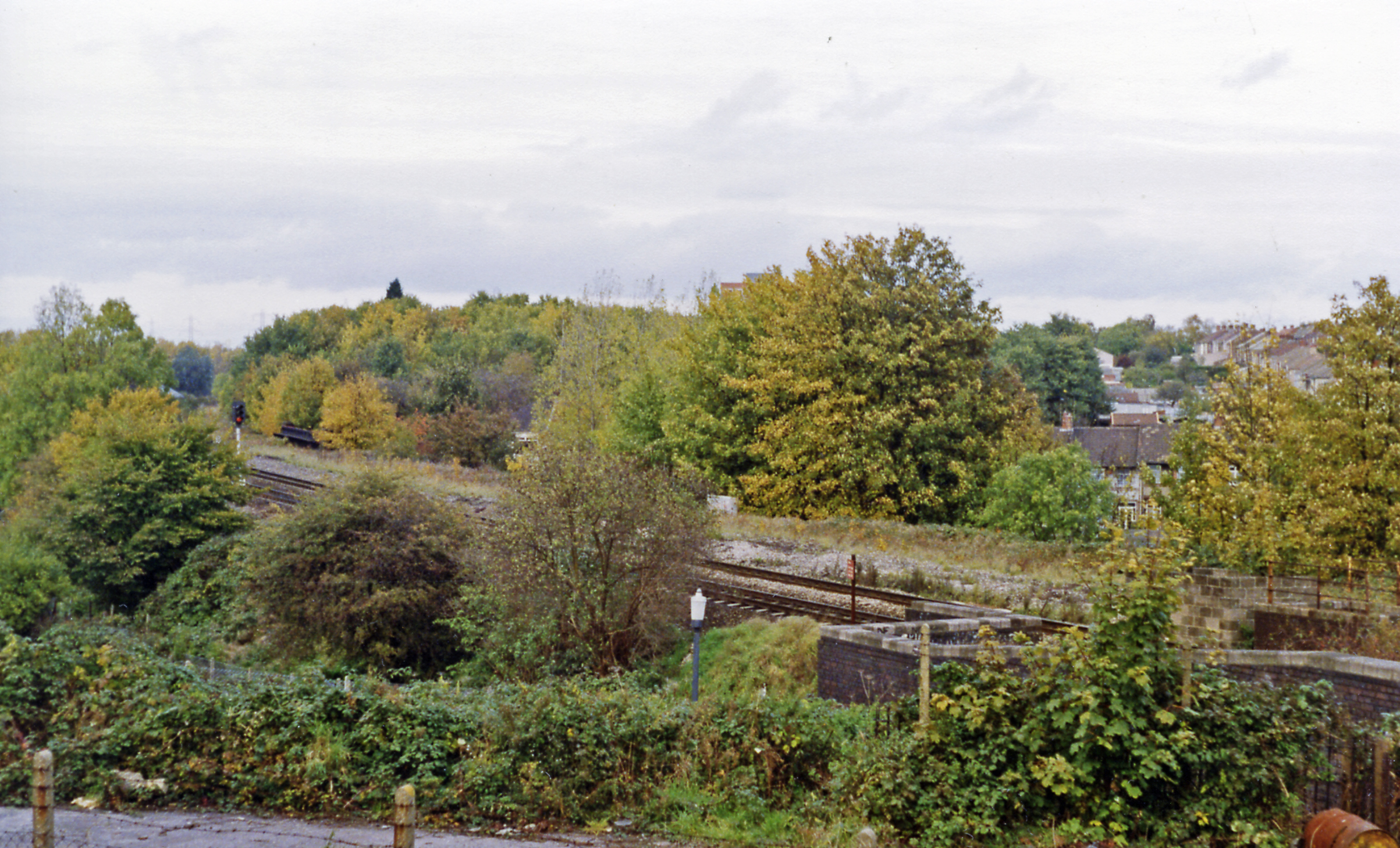 Site of Ashley Hill station. View SW, over the ex-GWR main line - formerly four-track, Bristol (right) - (left) Filton Junction, the Severn Tunnel and South Wales, Birmingham via Cheltenham and Swindon and London via Badminton. The station was closed on 23/11/64 (goods 1/11/66)and the route was reduced to double-track in the 1960s but has since been the only line up from Temple Meads to Bristol Parkway and everywhere.